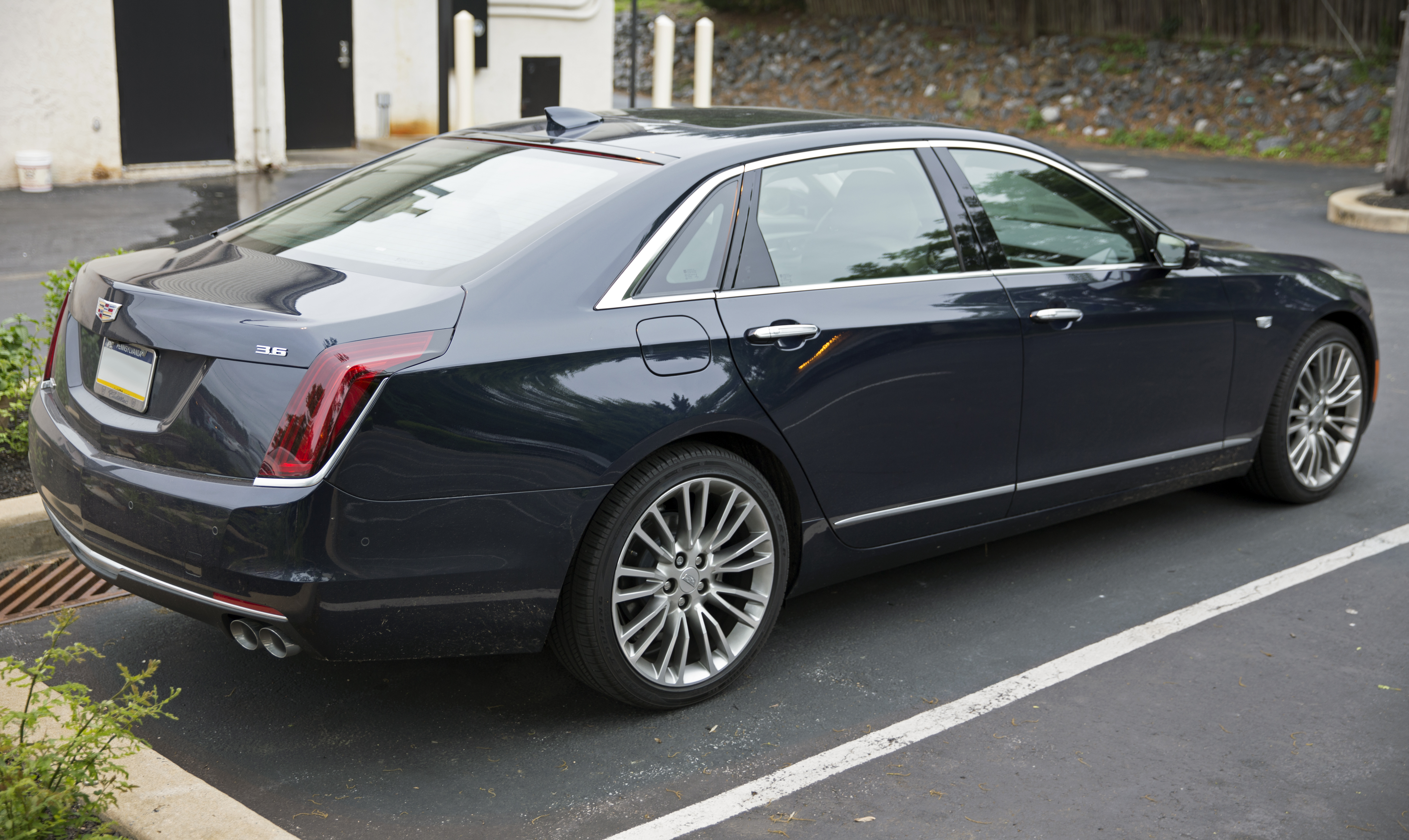 A 2018 Cadillac CT6 Premium Luxury AWD Super Cruise in Dark Adriatic Blue Metallic with Platinum interior. 3.6-liter V6, 8-speed auto, model code 6KL69.